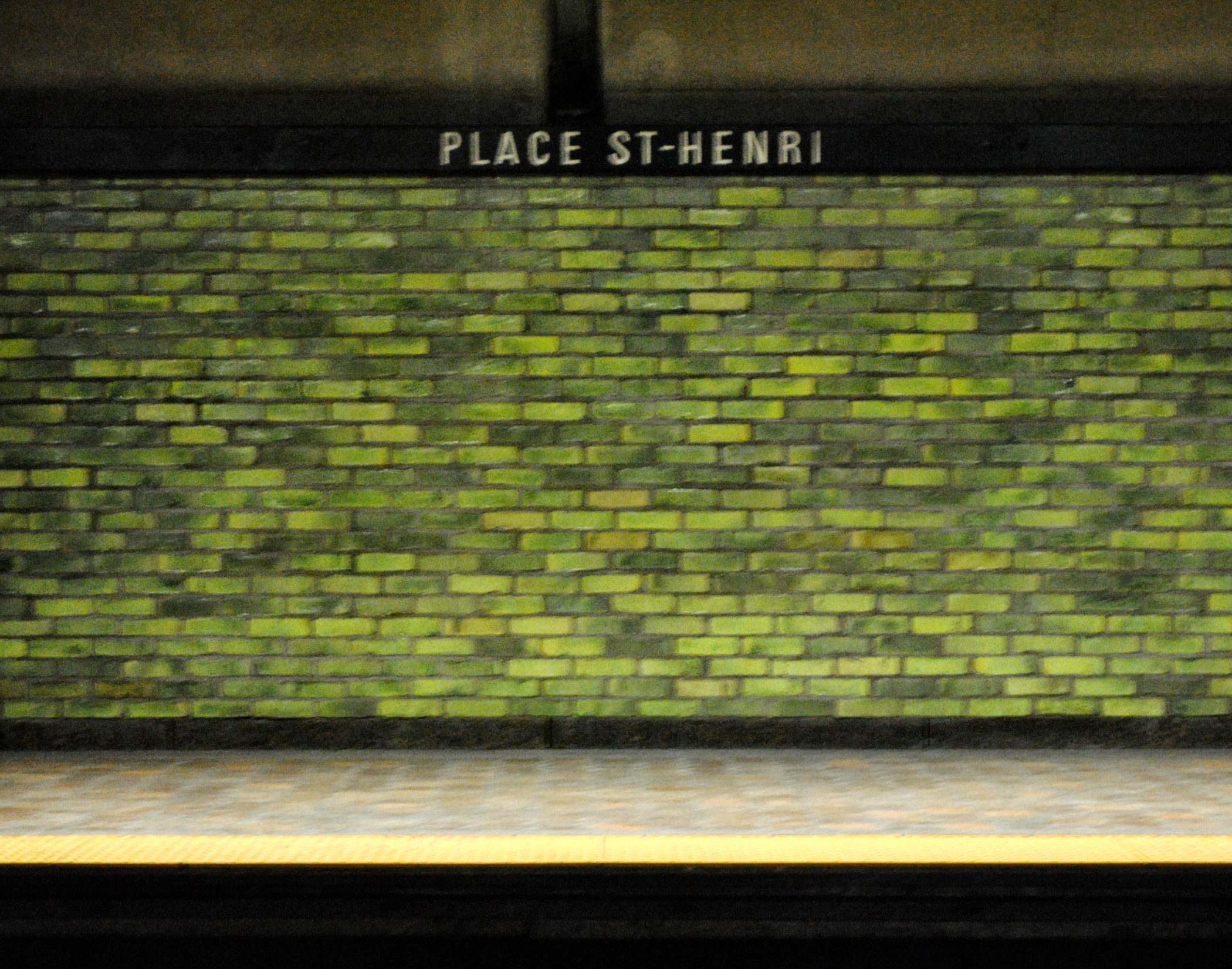 Wall of Place-Saint-Henri Station in Montreal Metro